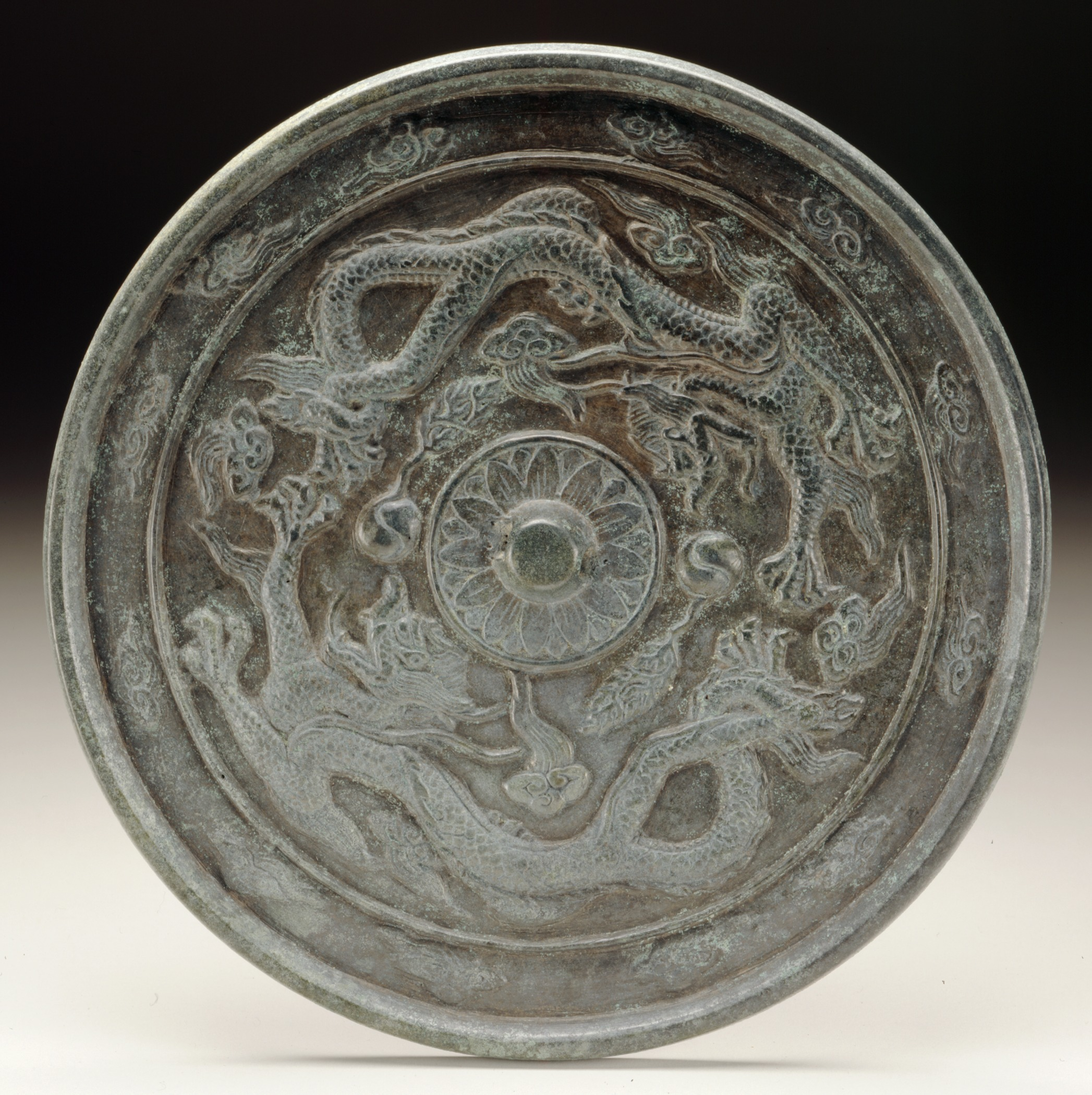 Korea, Goryeo dynasty, 918-1392 Tools and Equipment; mirrors Cast bronze Diameter: 9 1/8 in. (23.18 cm) Purchased with Museum Funds (M.2000.15.181) Korean Art